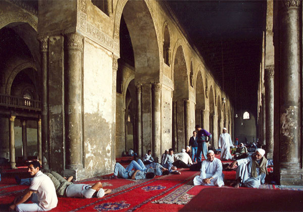 Ibn Tulun mosque. Cairo, Egypt